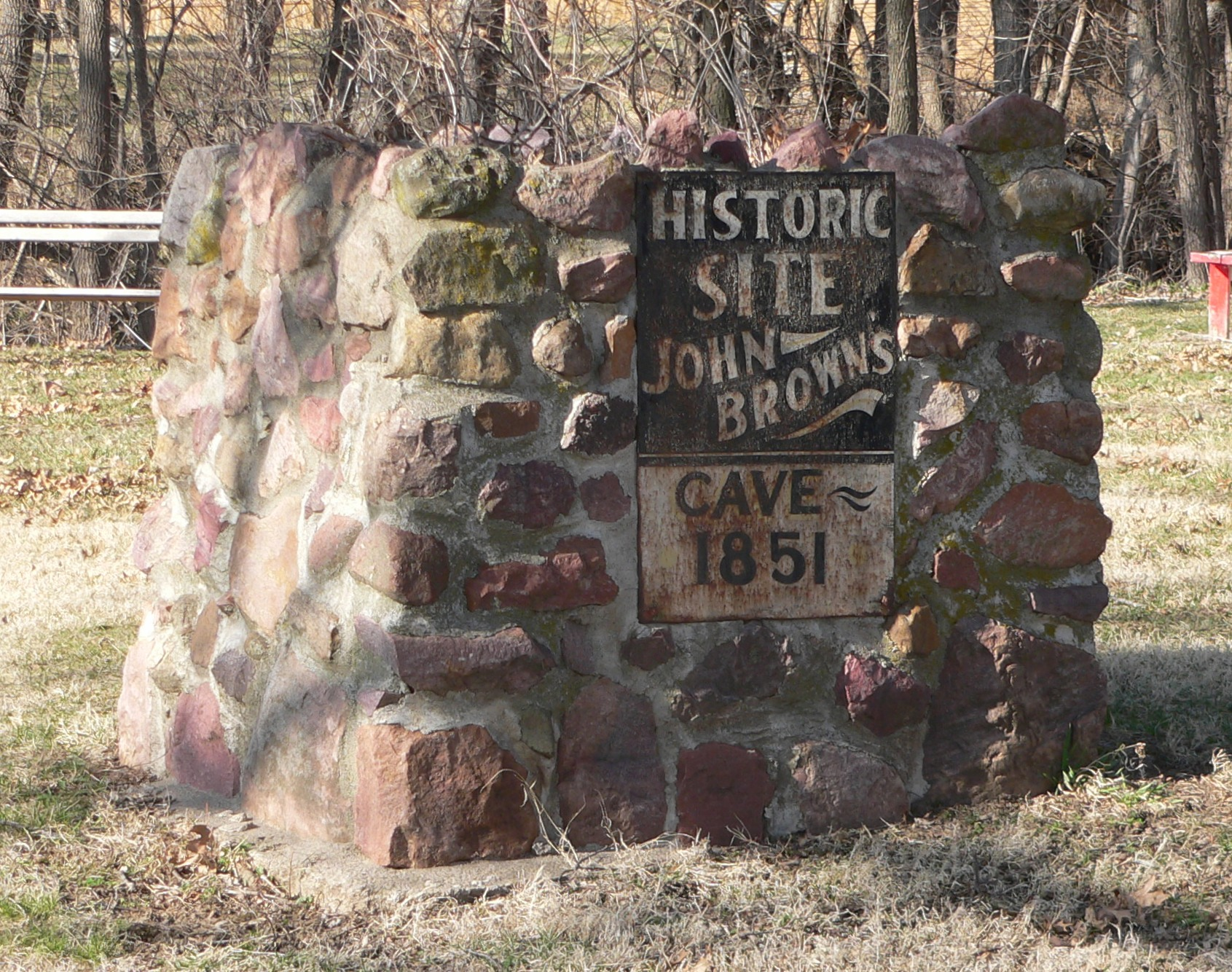 Mayhew Cabin, located at 2012 4th Corso in Nebraska City, Nebraska: "John Brown's Cave" sign.